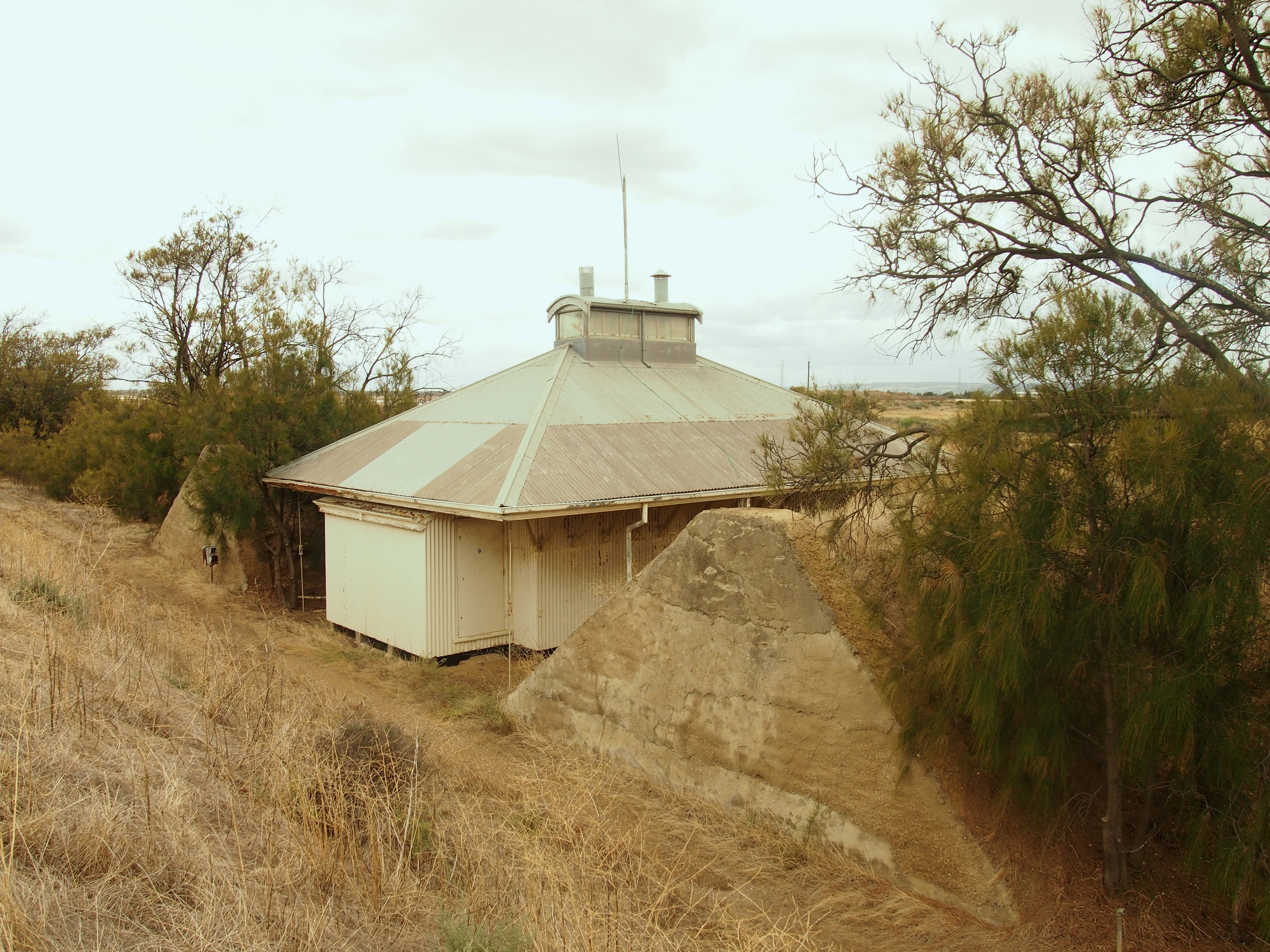 Dry Creek explosives depot - explosives store no. 9, viewed from the southwest. The tramway runs along the western side of the explosives stores, each of which has an extra individual bund on the other side of the tramway. Original filename = P4075625.jpg